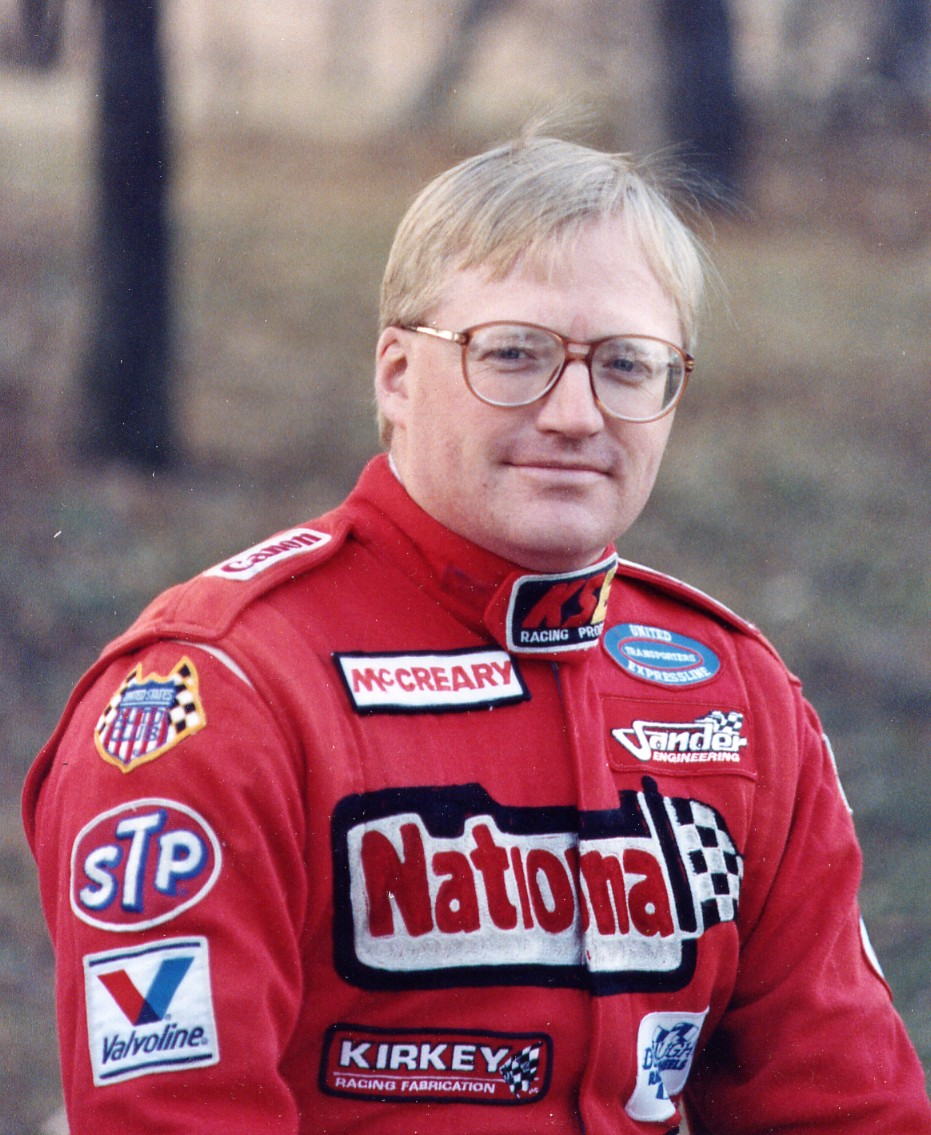 Steve Butler head shot with driving uniform and sponsor logos.